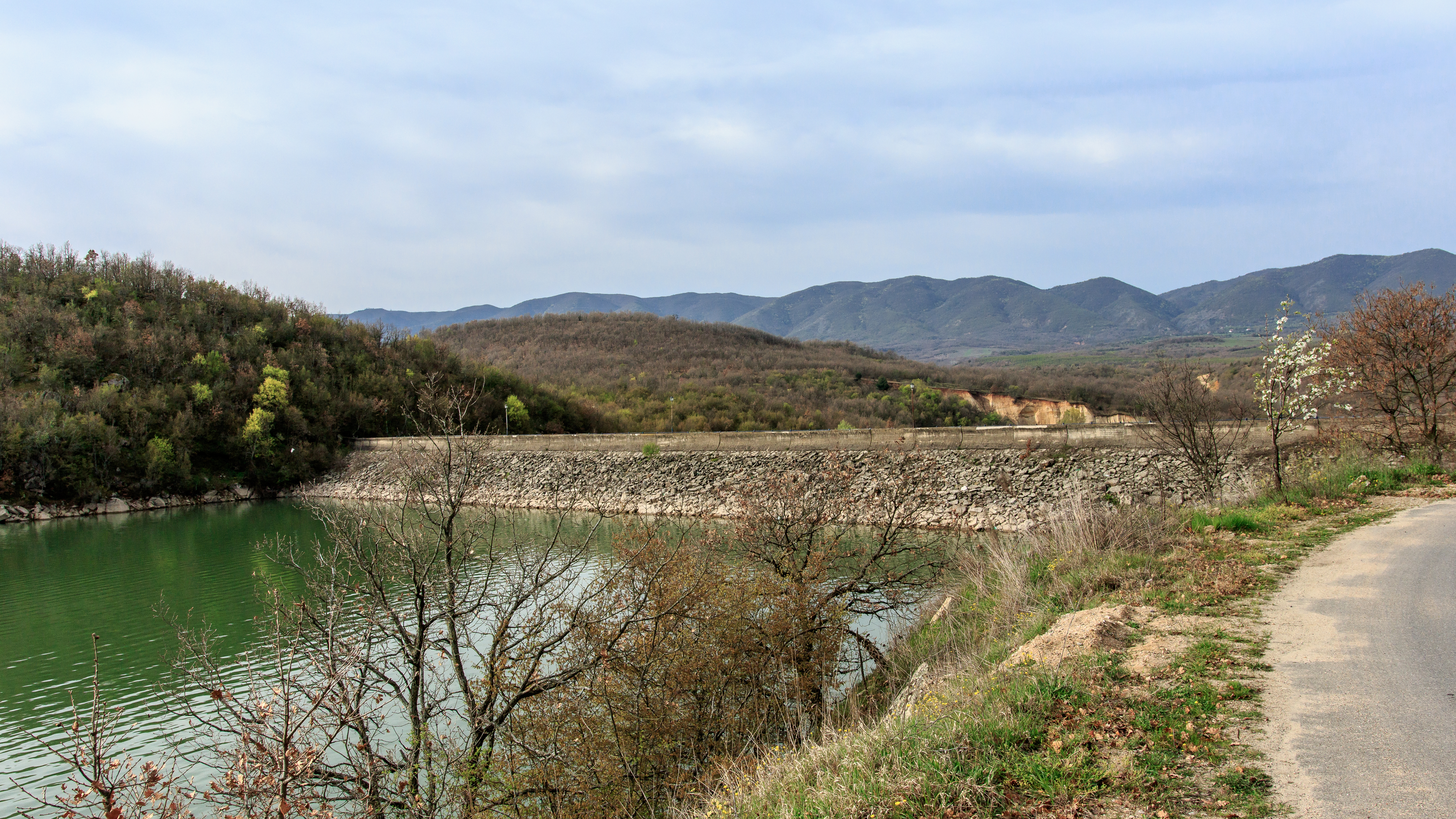 View of the Mantovo Lake